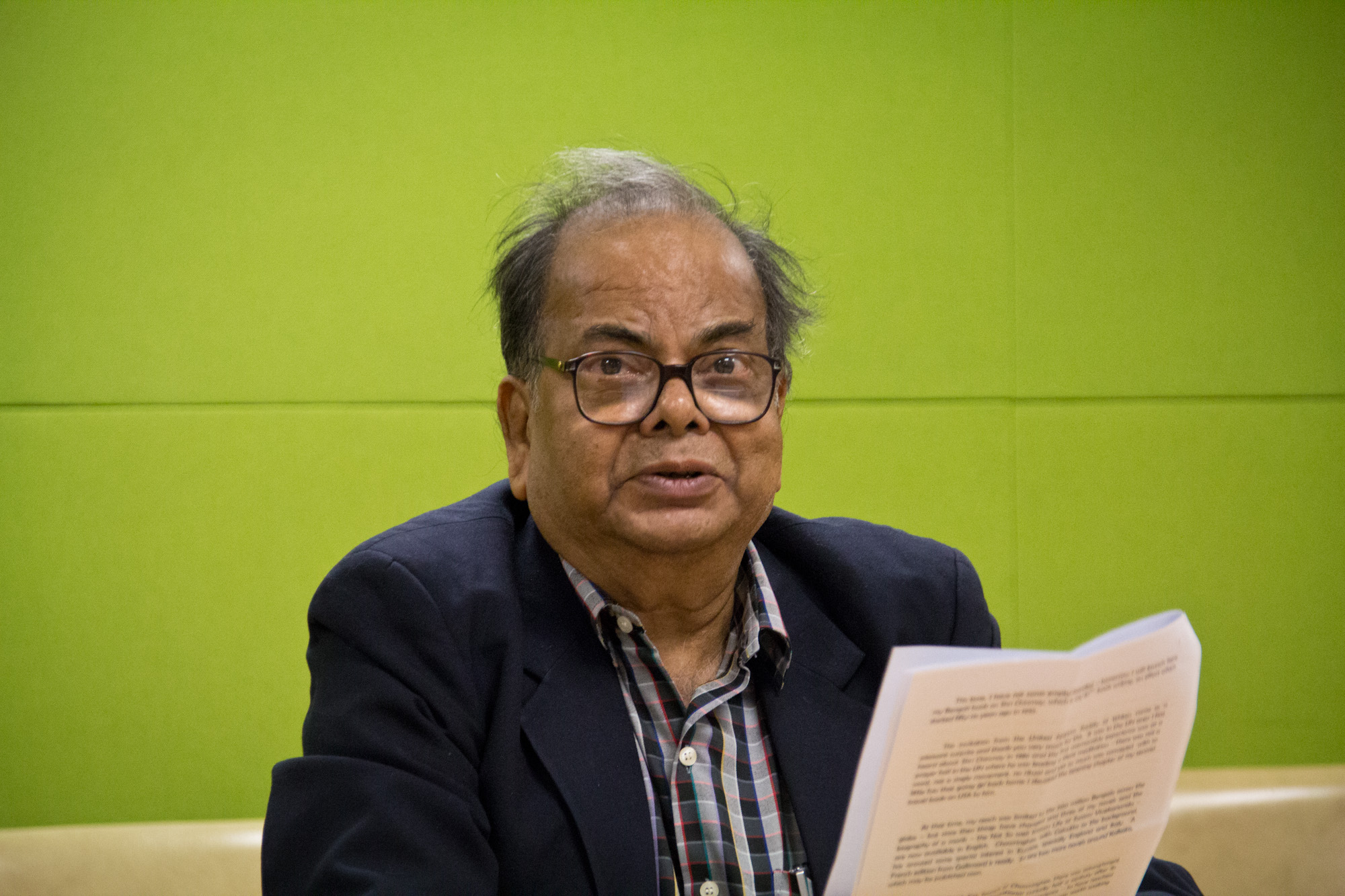 Sankar, real name Mani Shankar Mukherjee, at the United Nations, New York, discussing among other things his new biography of late meditation teacher Sri Chinmoy.